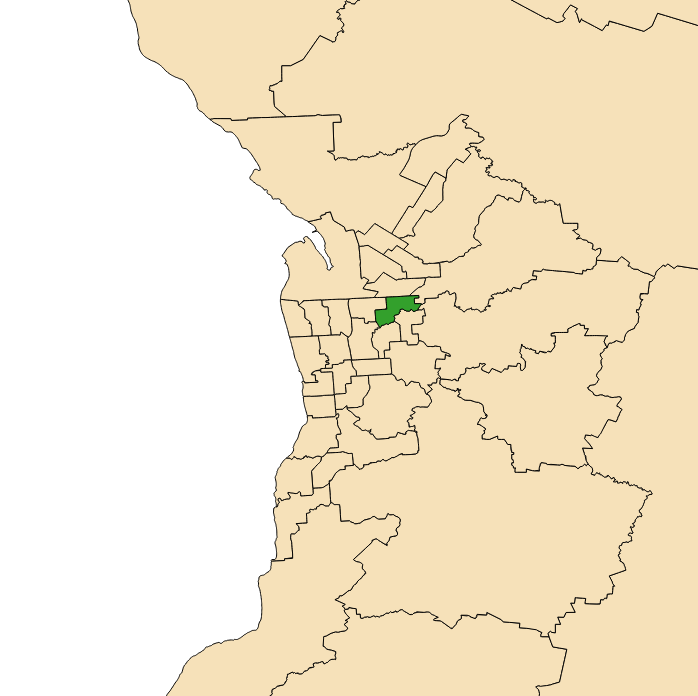 Electoral district 2018 boundaries shown in green